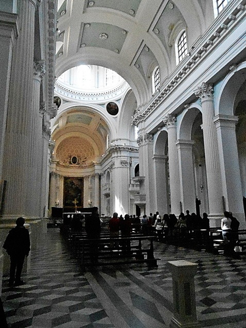 the nave